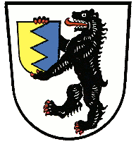 Coat of Arms of Singen (Hohentwiel).